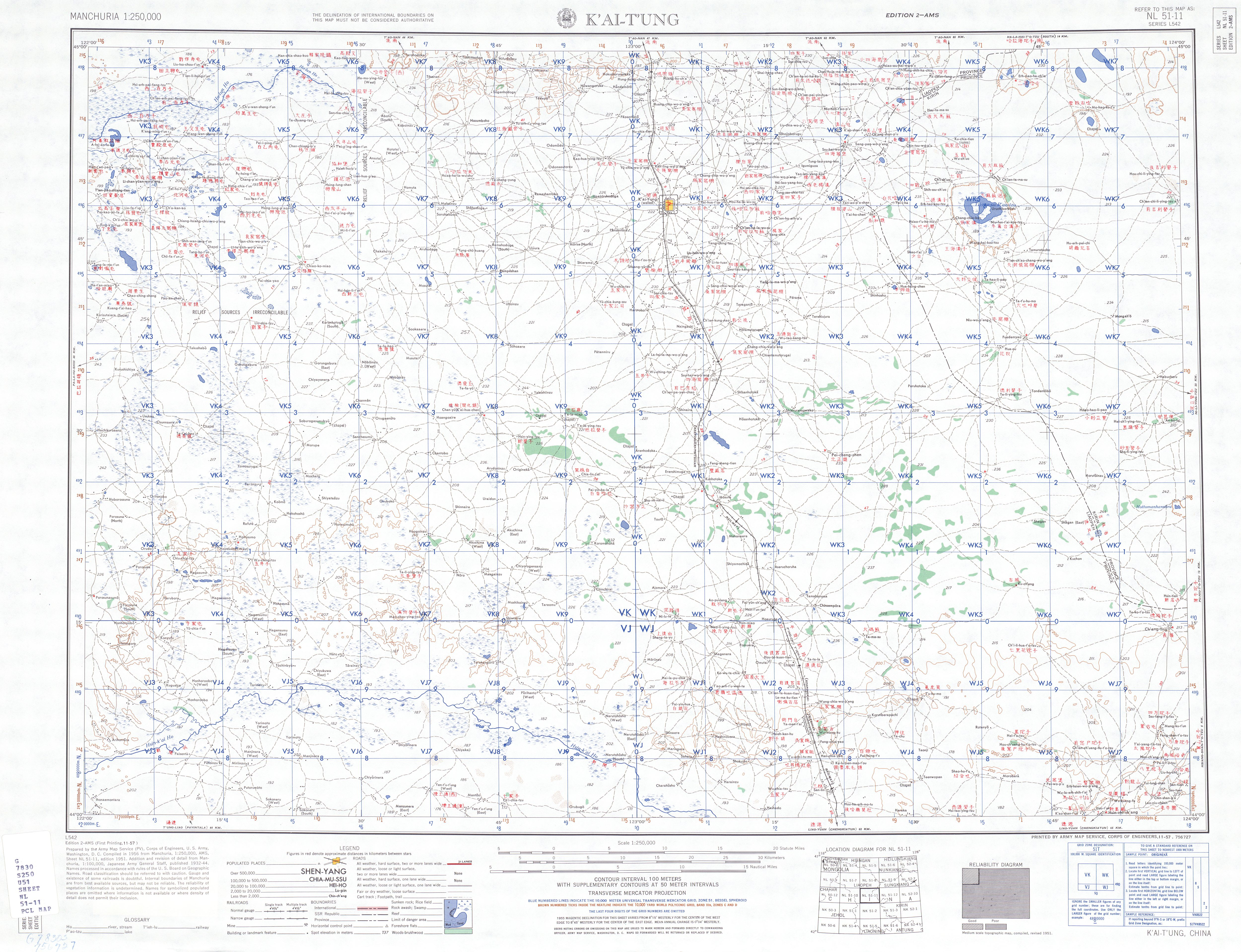 Manchuria AMS Topographic Maps